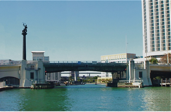 The design of the Brickell Avenue Bridge was an international competition and the winning architectural firm introduced art in its design. This was the first time that the Florida Department of Transportation incorporated architecture, art and engineering in a bridge design. In addition, Sculptor Carbonell incorporated bronze bas-reliefs of the Miami's pioneers and the Florida Fauna.